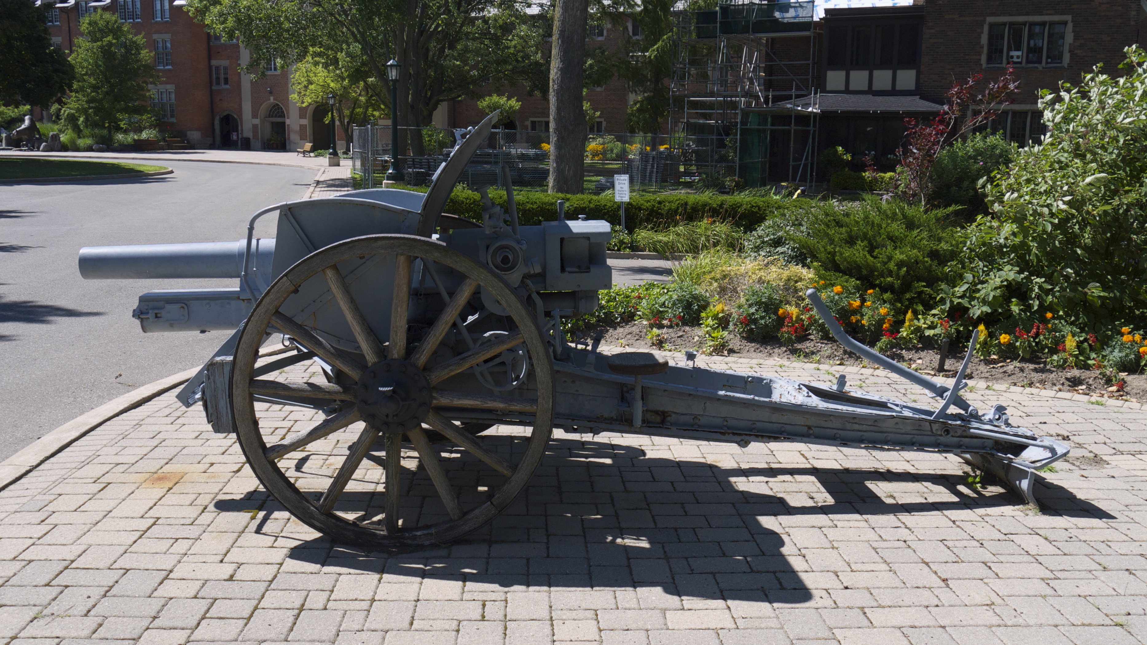 German 10.5 cm leFH 16 gun displayed on Ridley College campus, St. Catharines, Ontario.